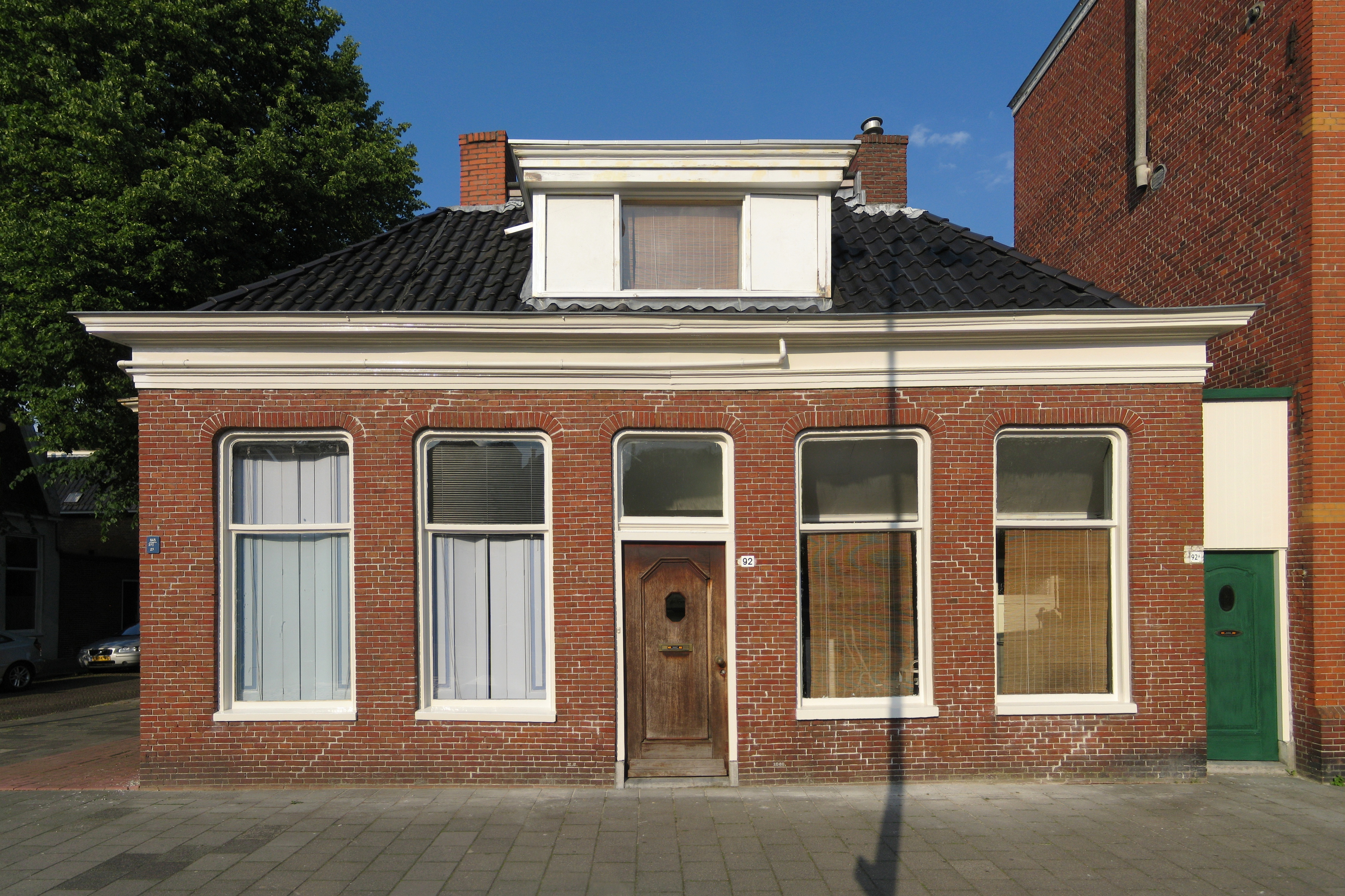 House (1868) in the Dutch city of Groningen.